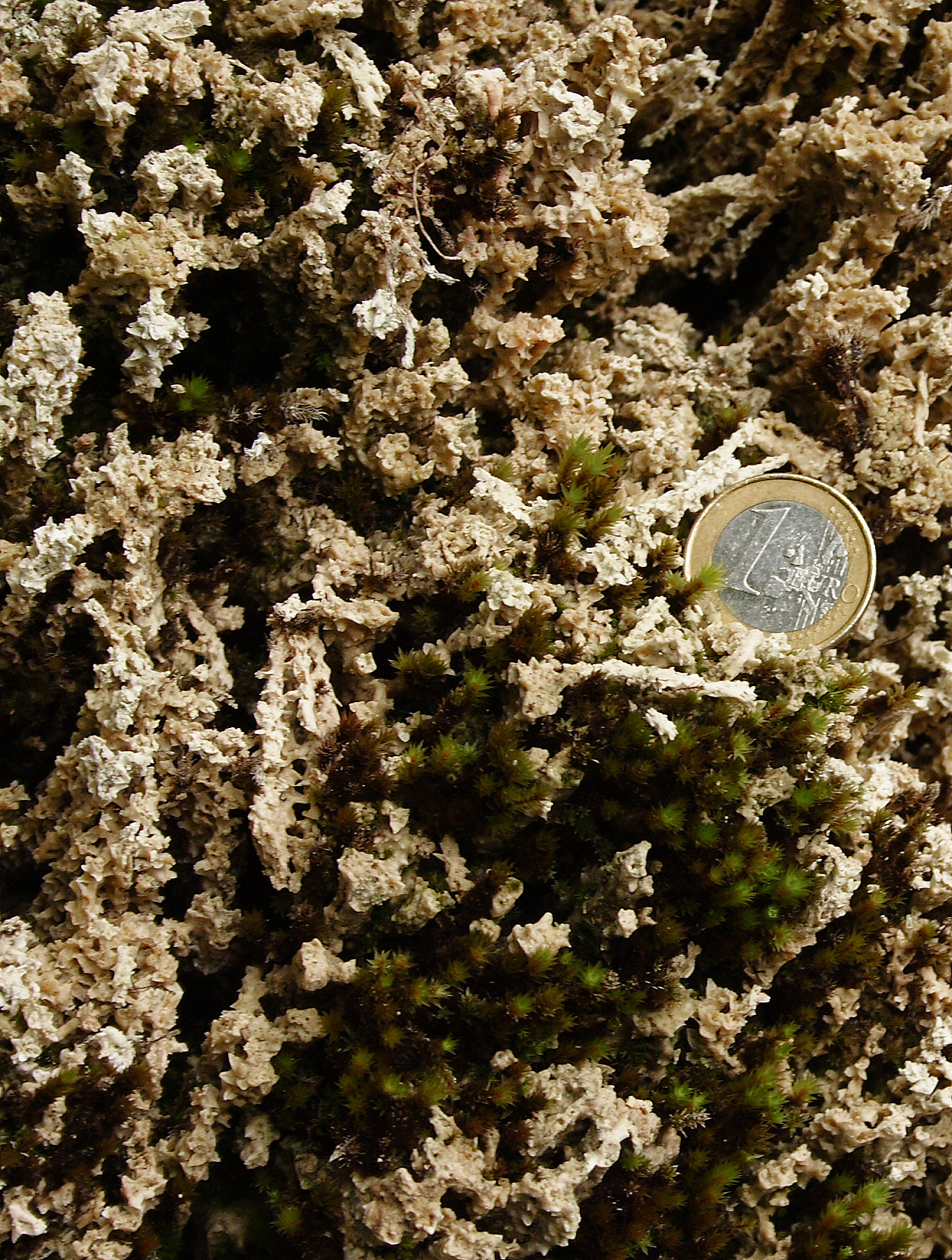 Fresh Kalktuff („Calcarious Tuff") - a rare secondary deposit of solid calcium carbonate on the Swabian Alb and the Franconian Jura, southern Germany. Assimilation of Moss accelerates chemical precipitation of calcium bicarbonate, which is dissoluted in karst water. The moss grows freshly on top of its encrusted species. These iterations form fragile structures.